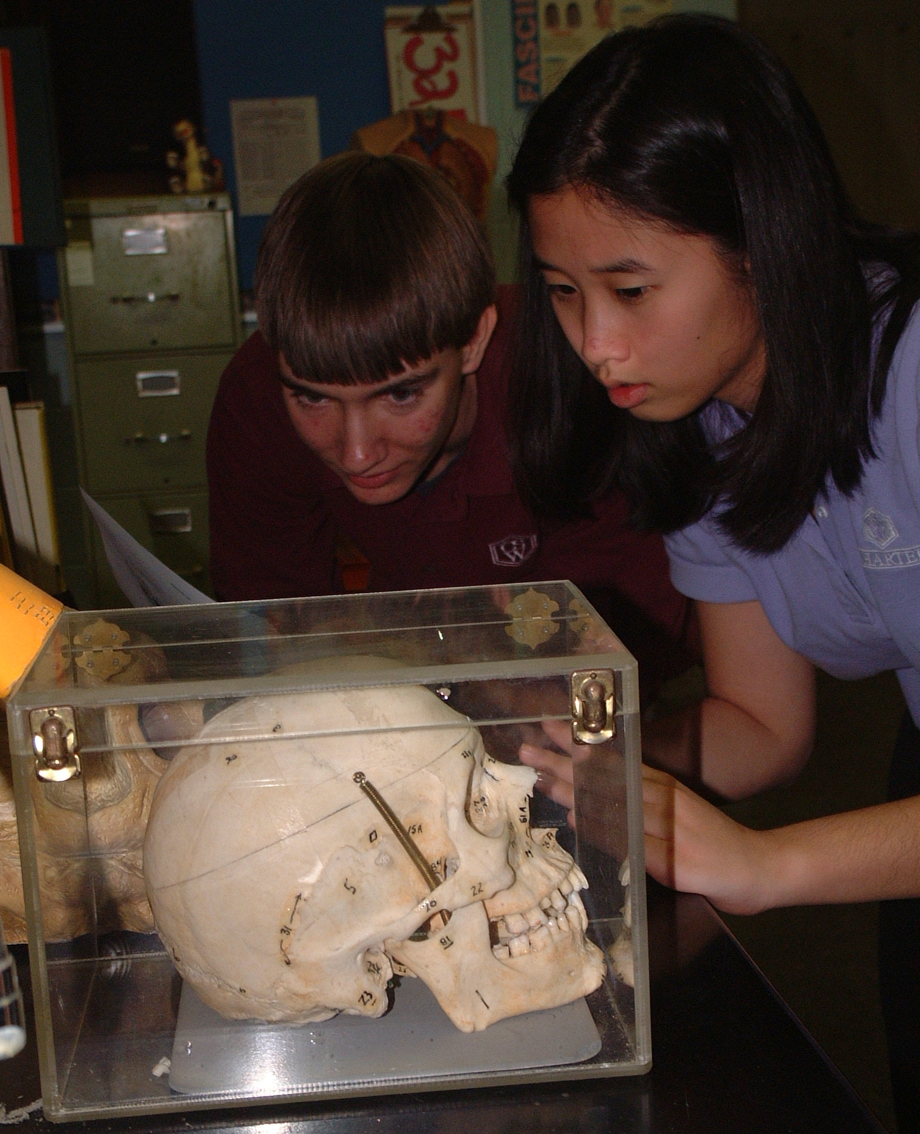 Charter School of Wilmington students. Wilmington, DE, USA.